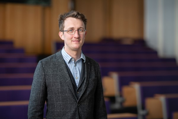 Portrait photo of Dr Ben Britton.